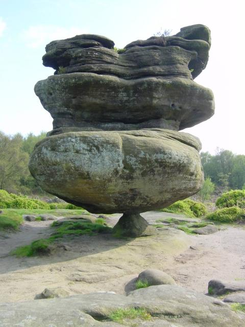 Idol Rock - Brimham Rocks